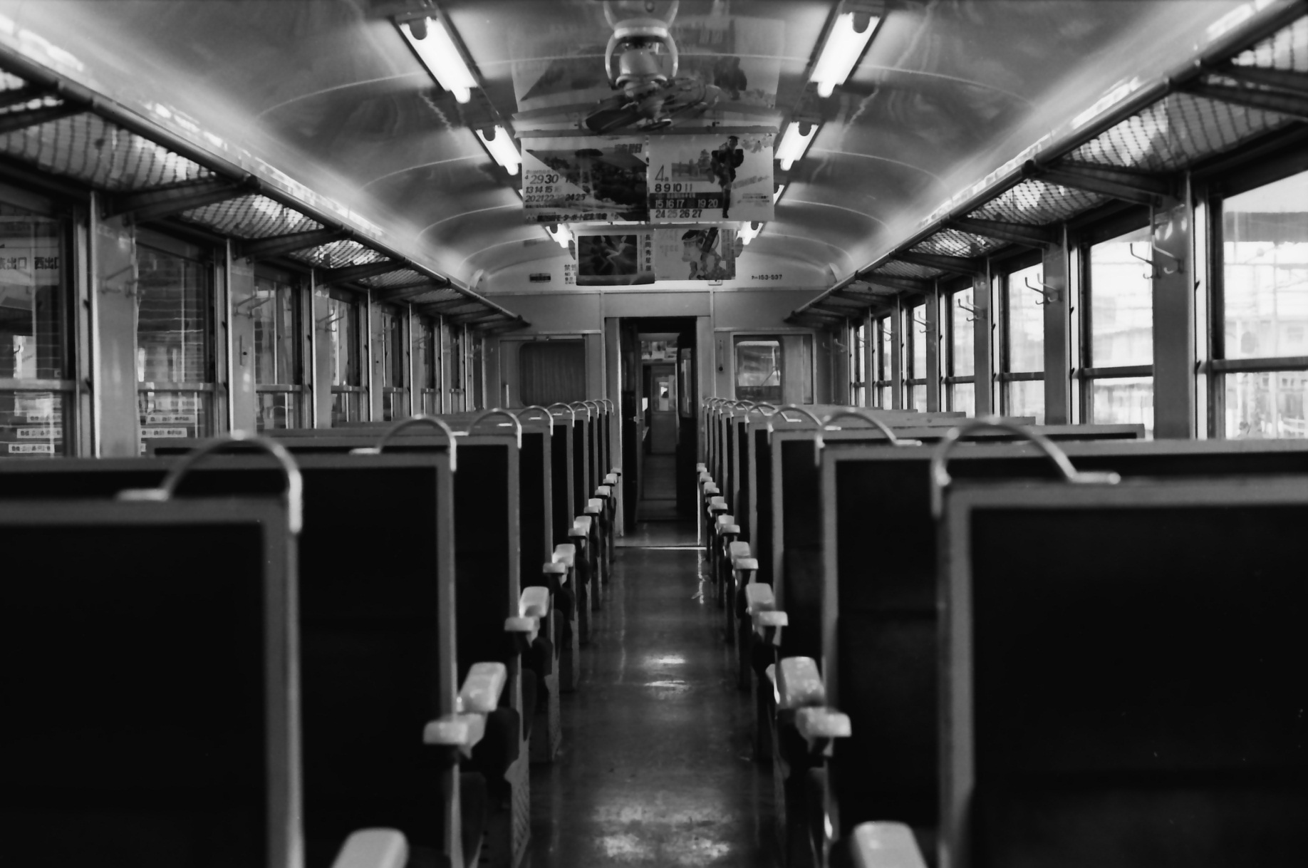 The interior of JNR 153 series EMU car KuHa 153-537